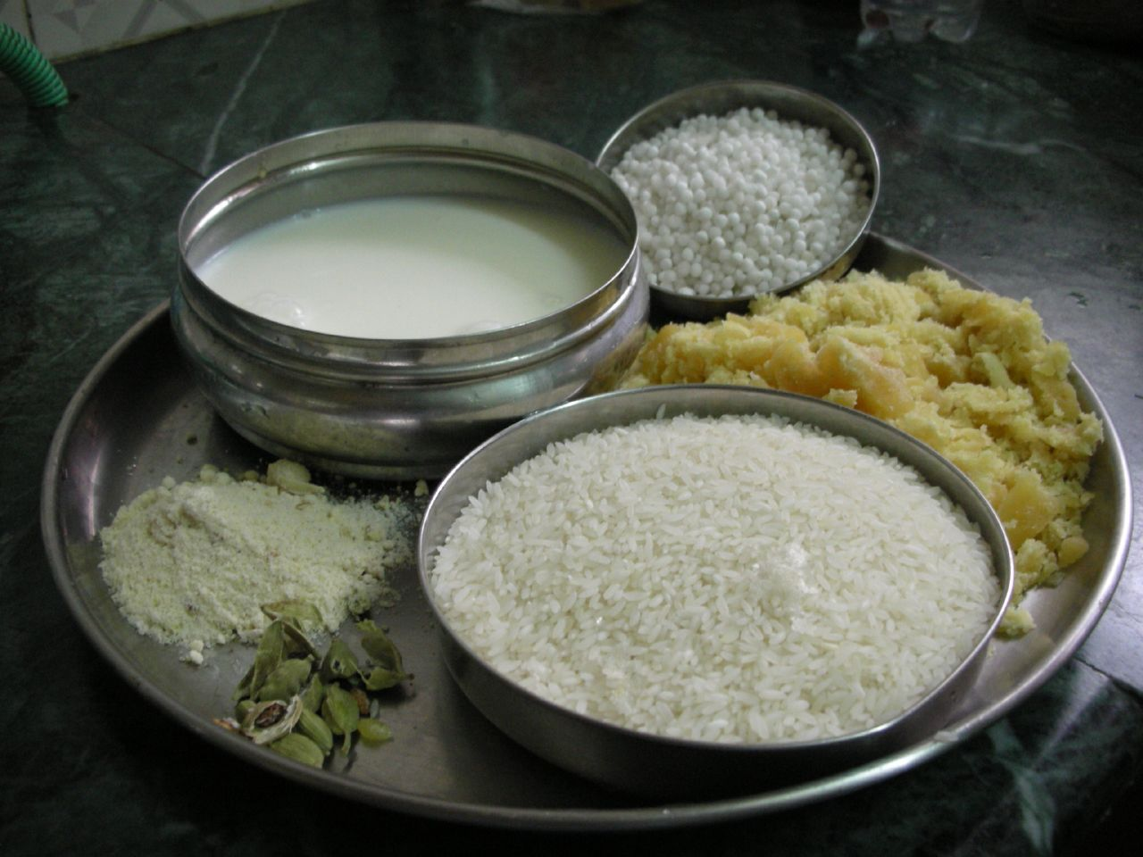 Original name: Making of Kheer (పరవాన్నం) Original caption: i tried to make paravaannam on this sankranti day. came out reasonably well. rice,sagorice,jaguery,milk,ilaichi & mtr kheer mix and mix !